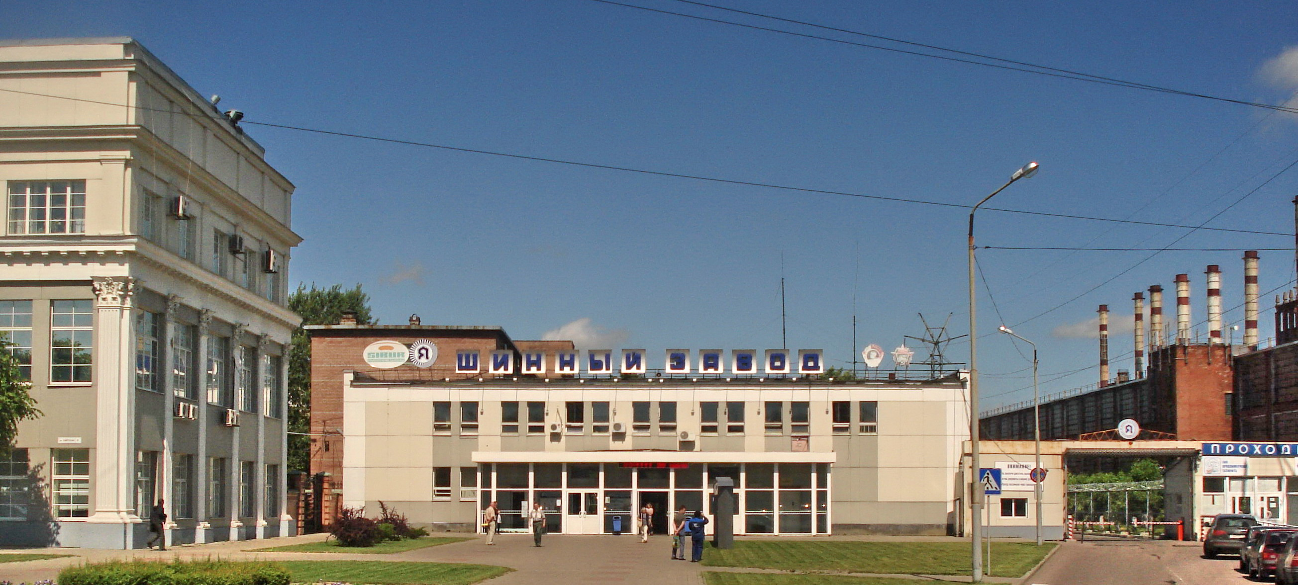 Yaroslavl tyre plant